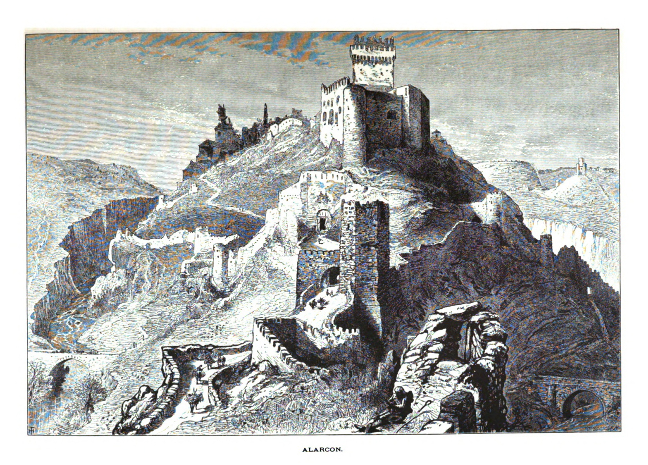 Alarcón.